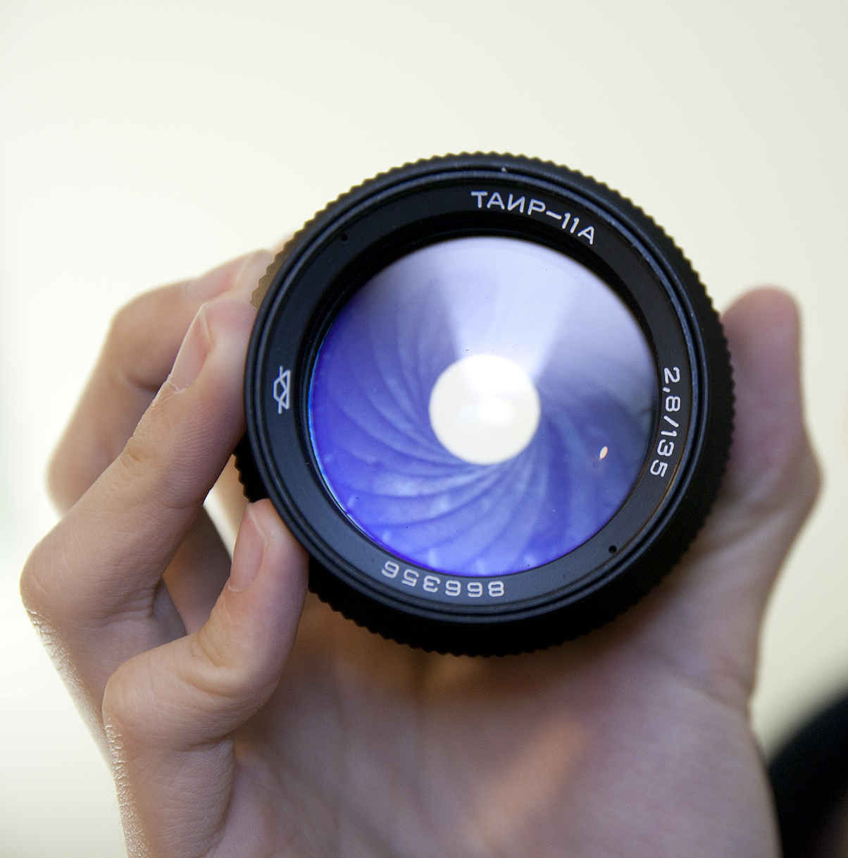 The Russian Tair 11-a lens. It is a 135mm f/2.8 prime lens for the M42 lens mount. Note the number of aperture blades!